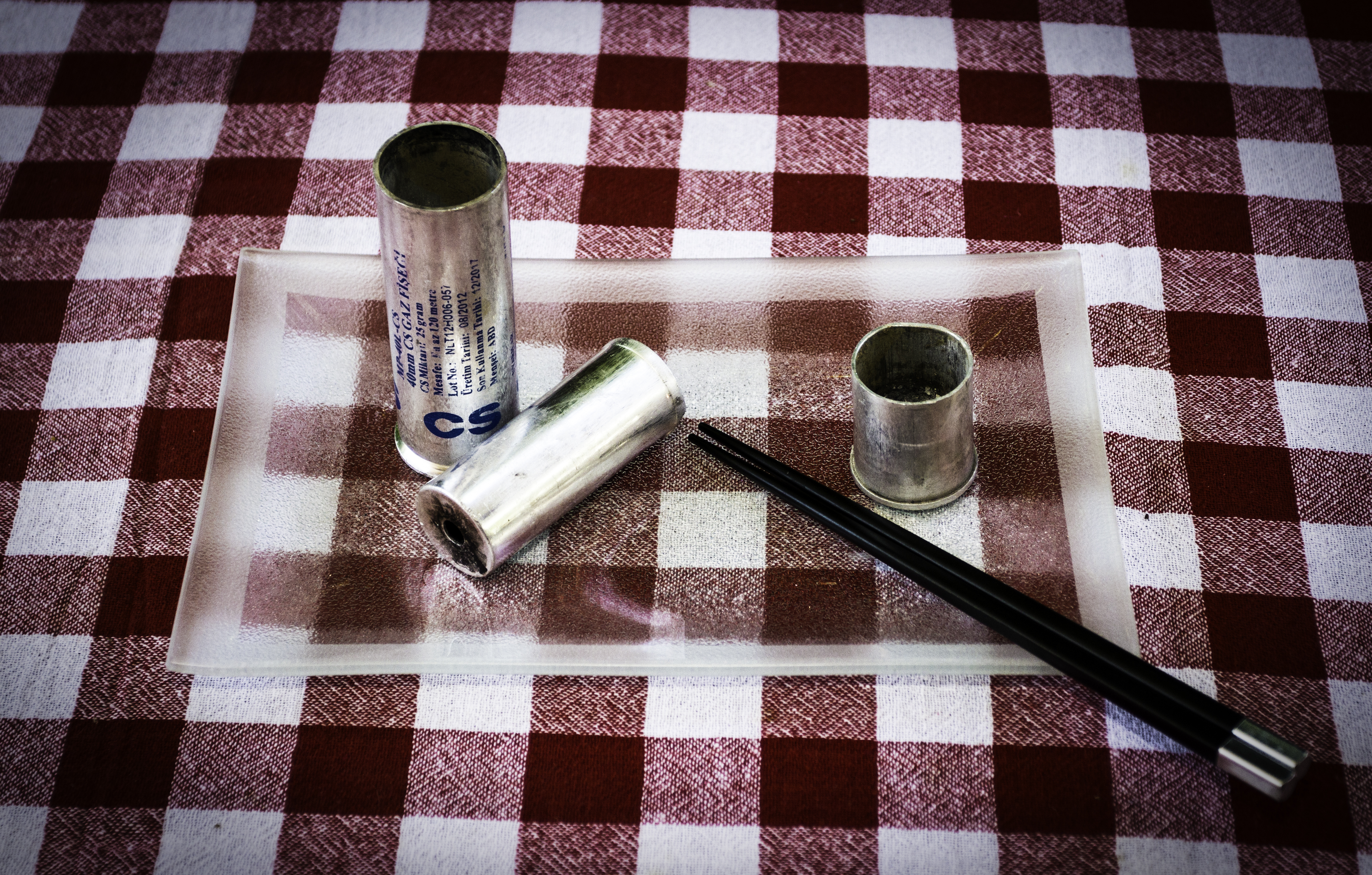 These are only a few of the different versions of CS gas shells used in the Taksim Gezi Park resistance, in Istanbul.